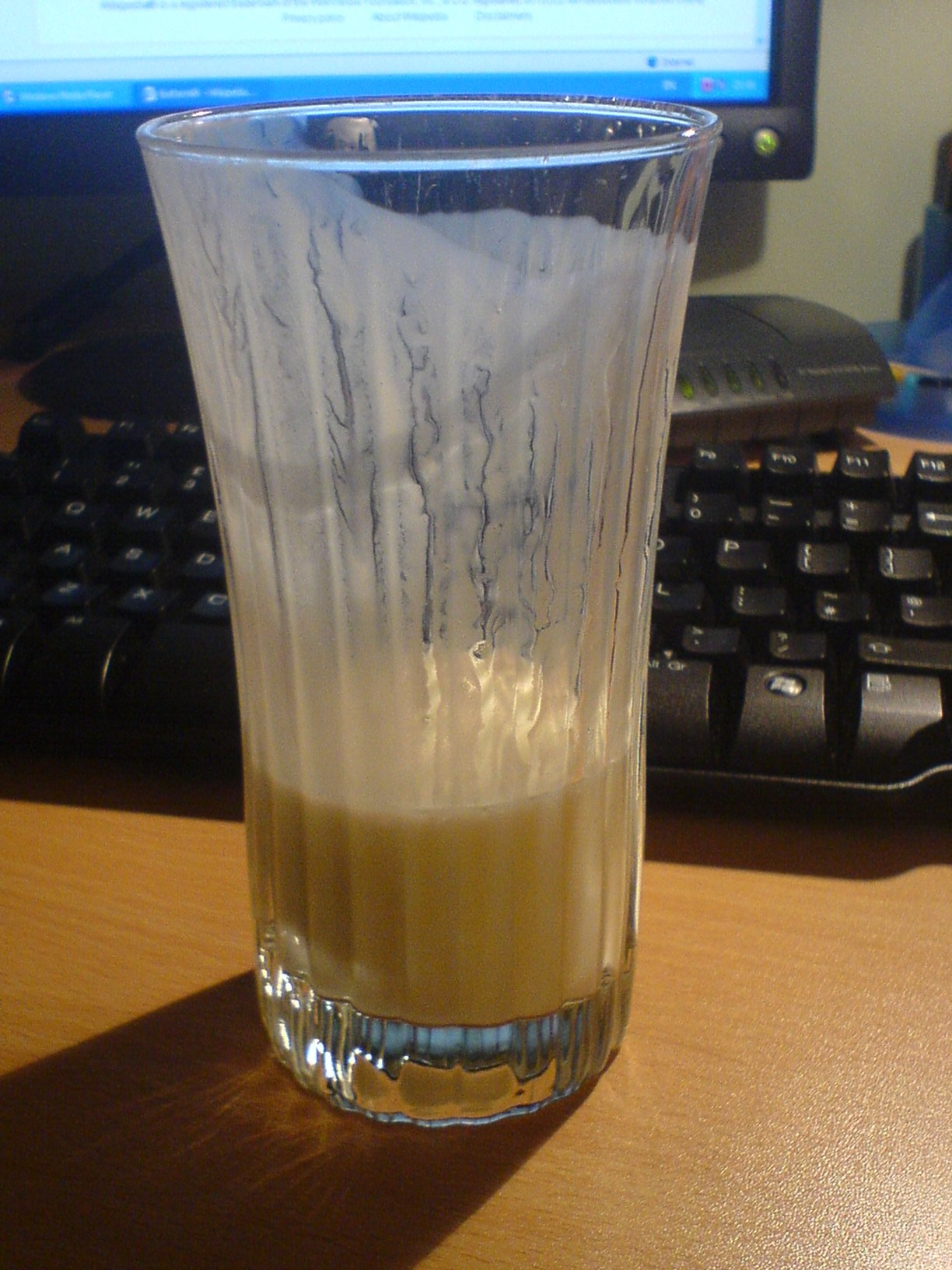 A half drunk glass of cultured buttermilk